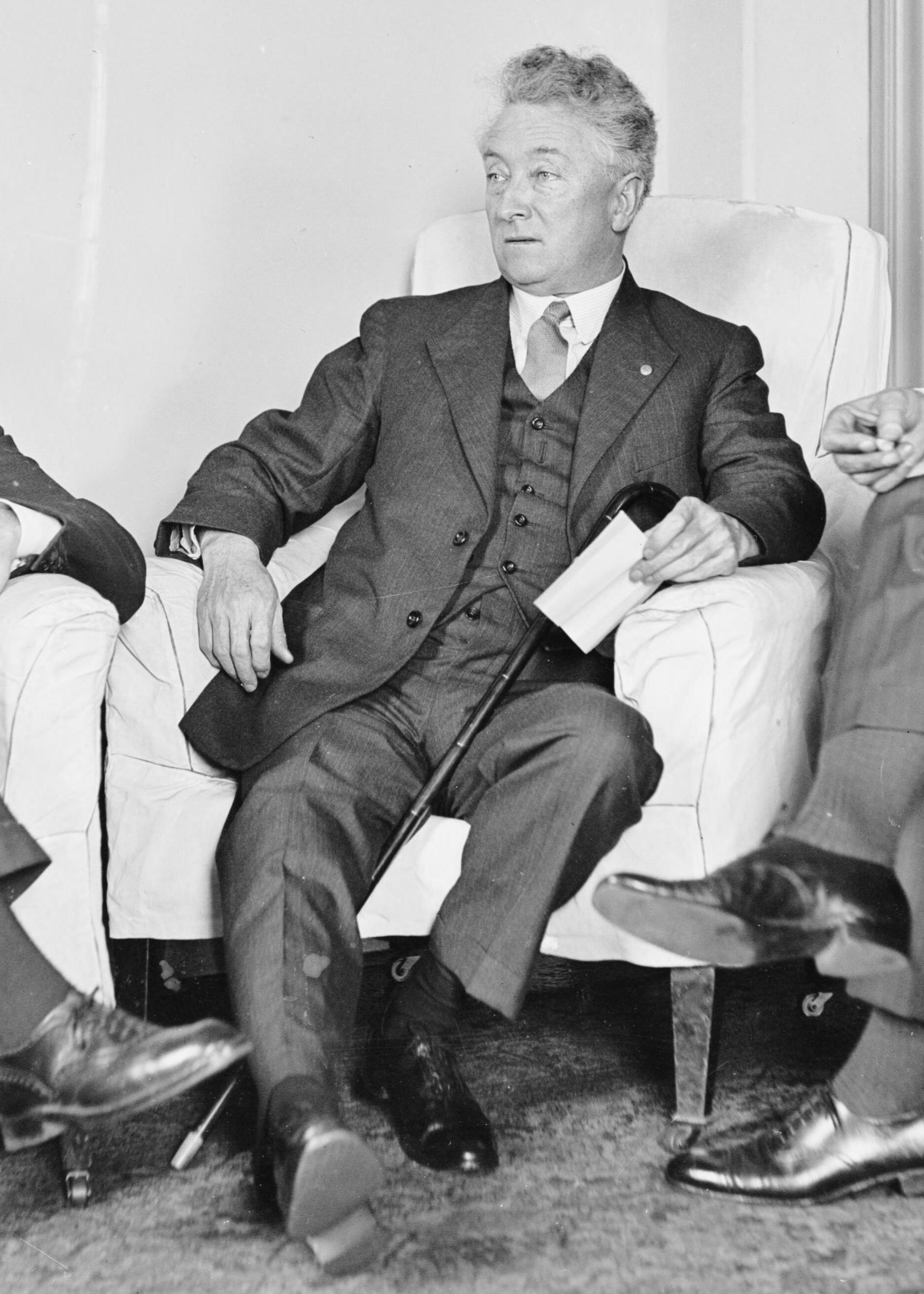 Joseph Lyons, Australian politician